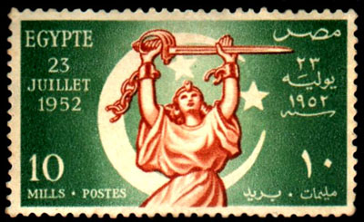 23rd of July 1952 stamp